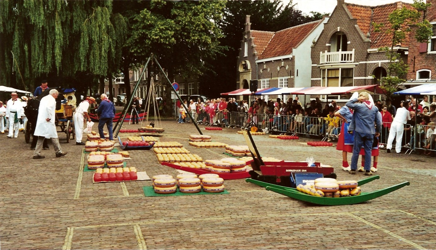 Traditional cheese market in Edam. Actually, it's a show for tourists, a re-enactment of the true traditional market as it was once held.